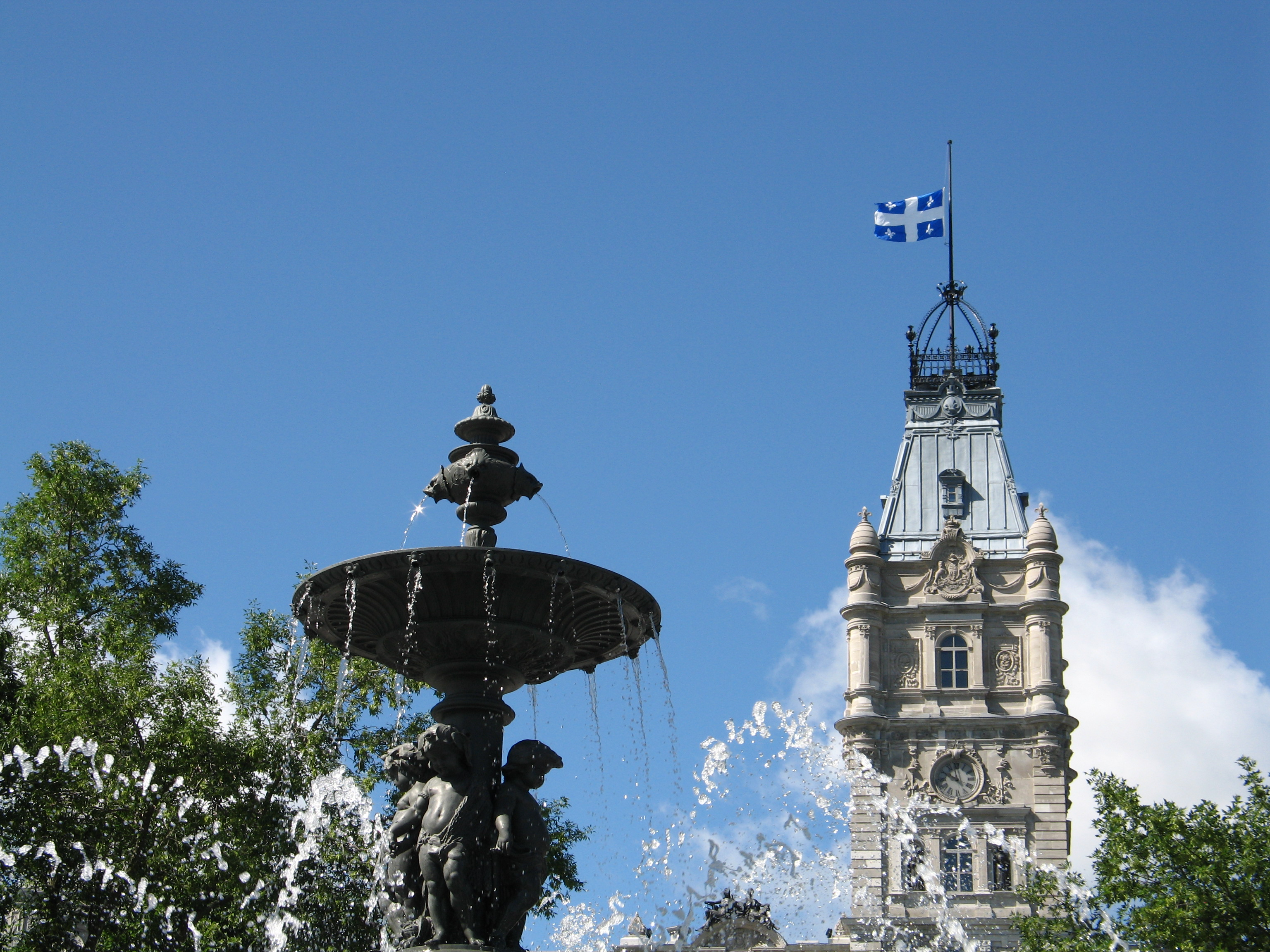 The Government of Quebec ordered all Quebec flags on government buildings, including the Parliament Building in Quebec City (photo), to be lowered at half staff between July 11 and 17, 2013 following the July 6, 2013 Lac-Mégantic train derailment.